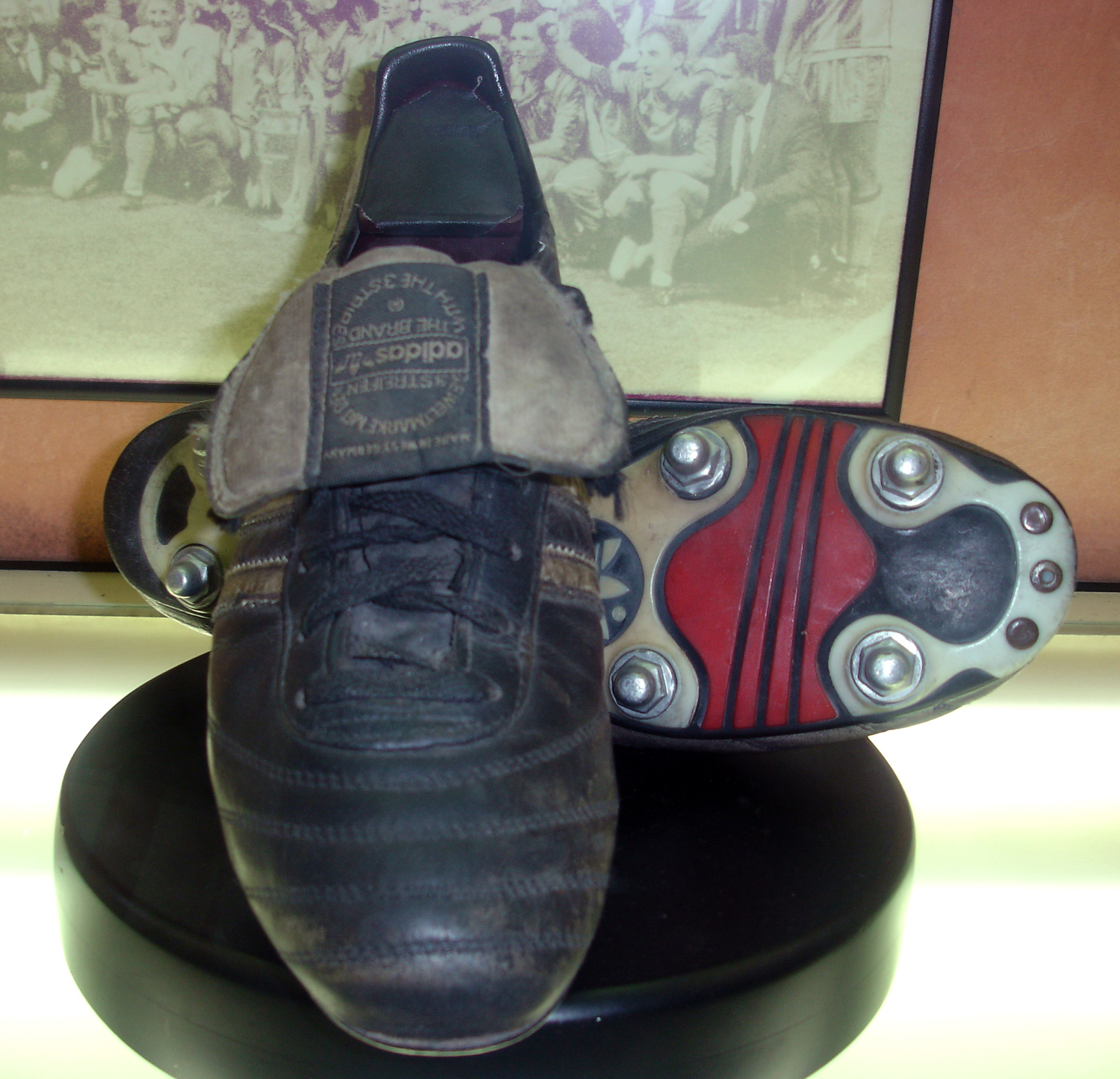 Ronald Koeman - The shoes that Koeman wore when scoring the victory goal on the final that gave FC Barcelona its first Champions Cup (1992/may/20